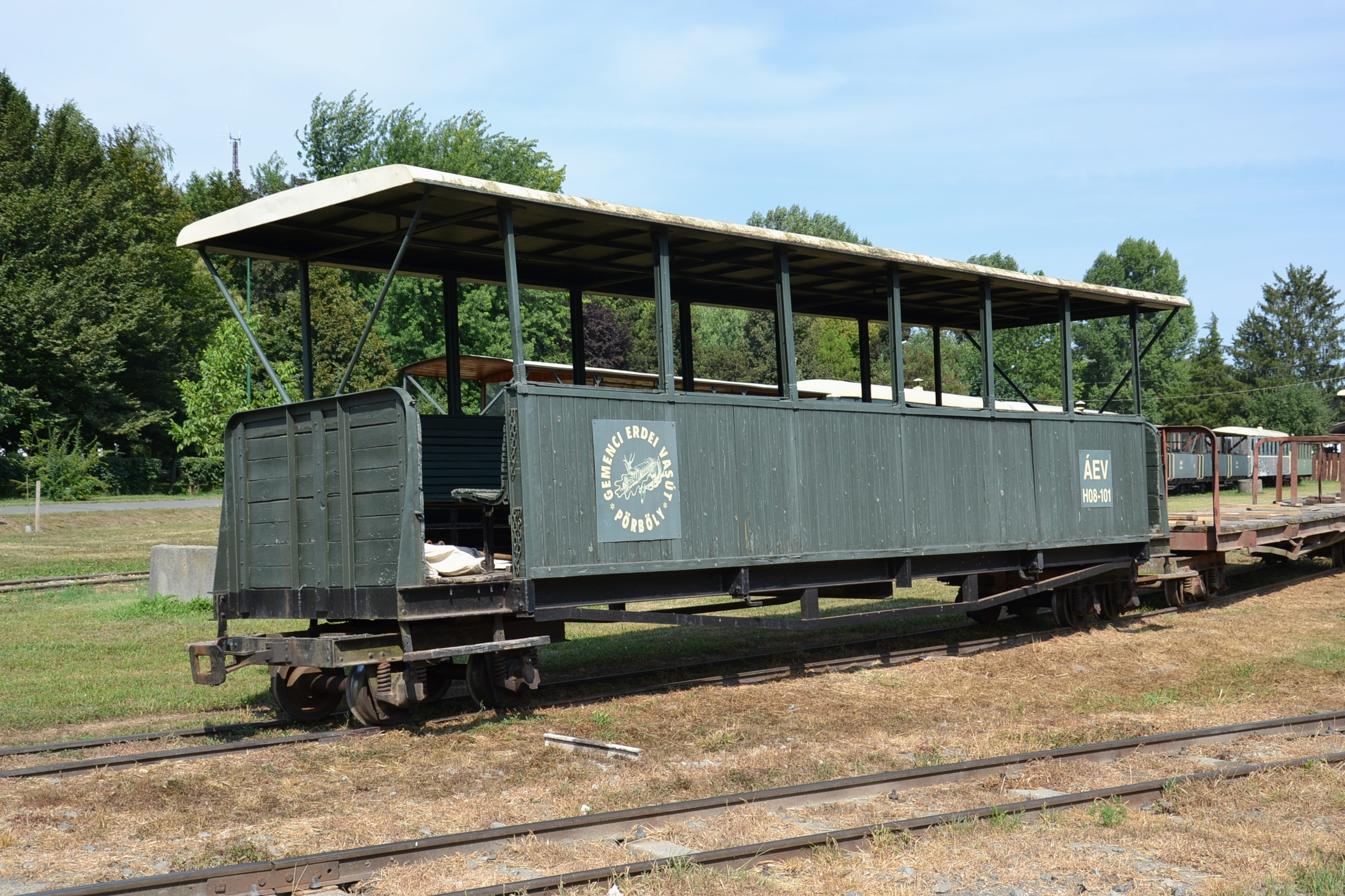 Forest Railway of Gemenc, Hungary